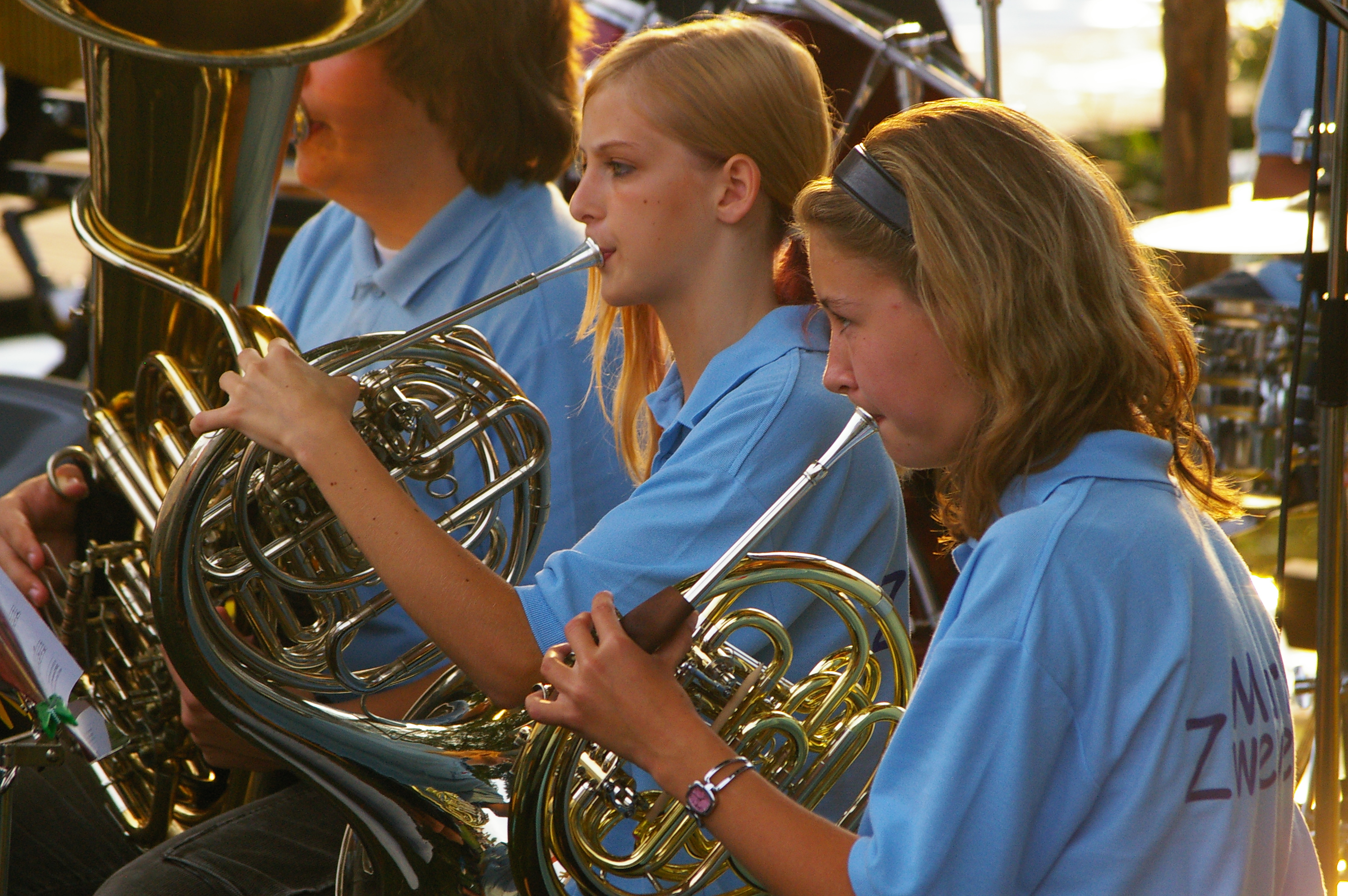 youth brass band